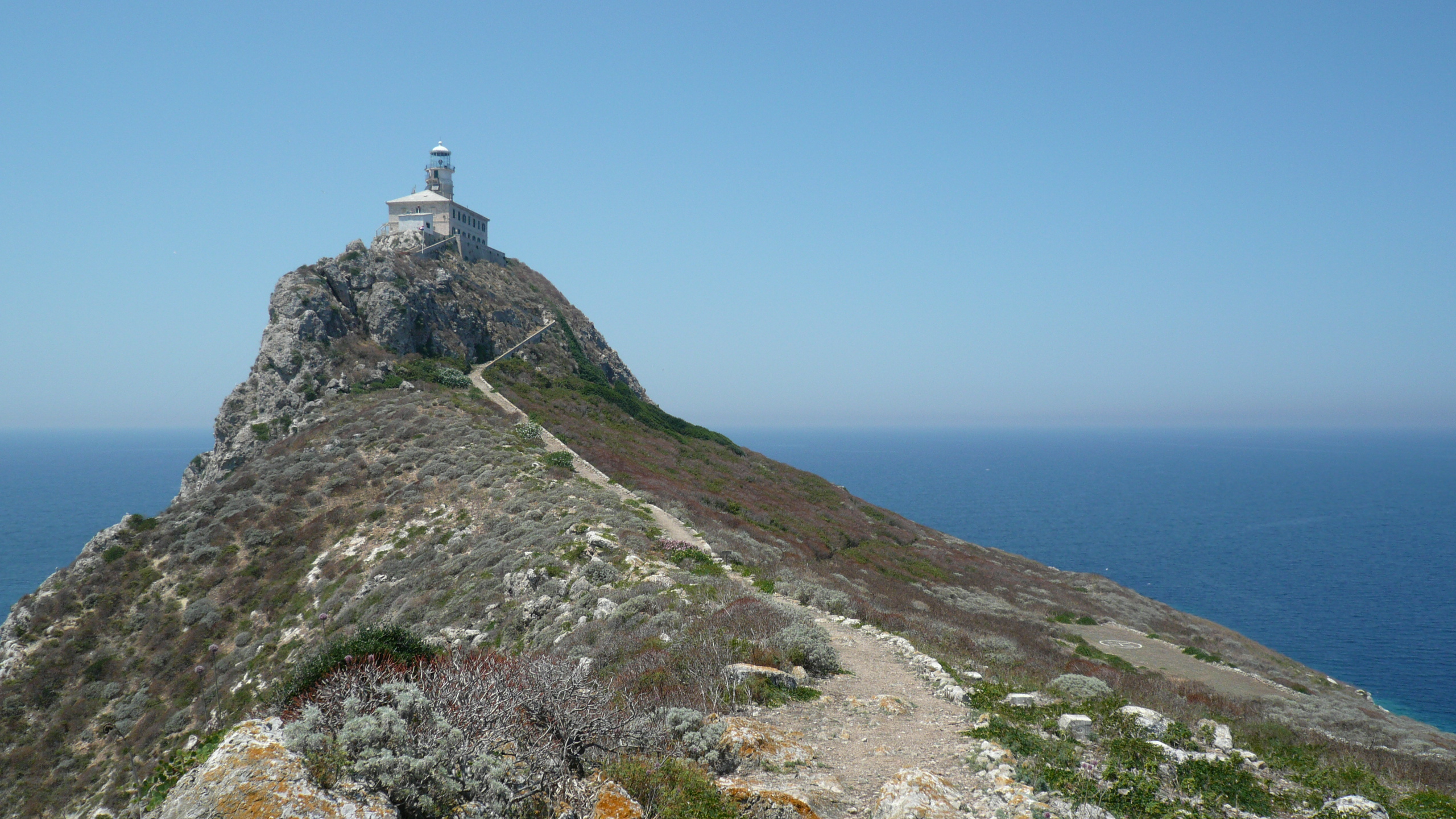 Towards the Lighthouse of Palagruža.